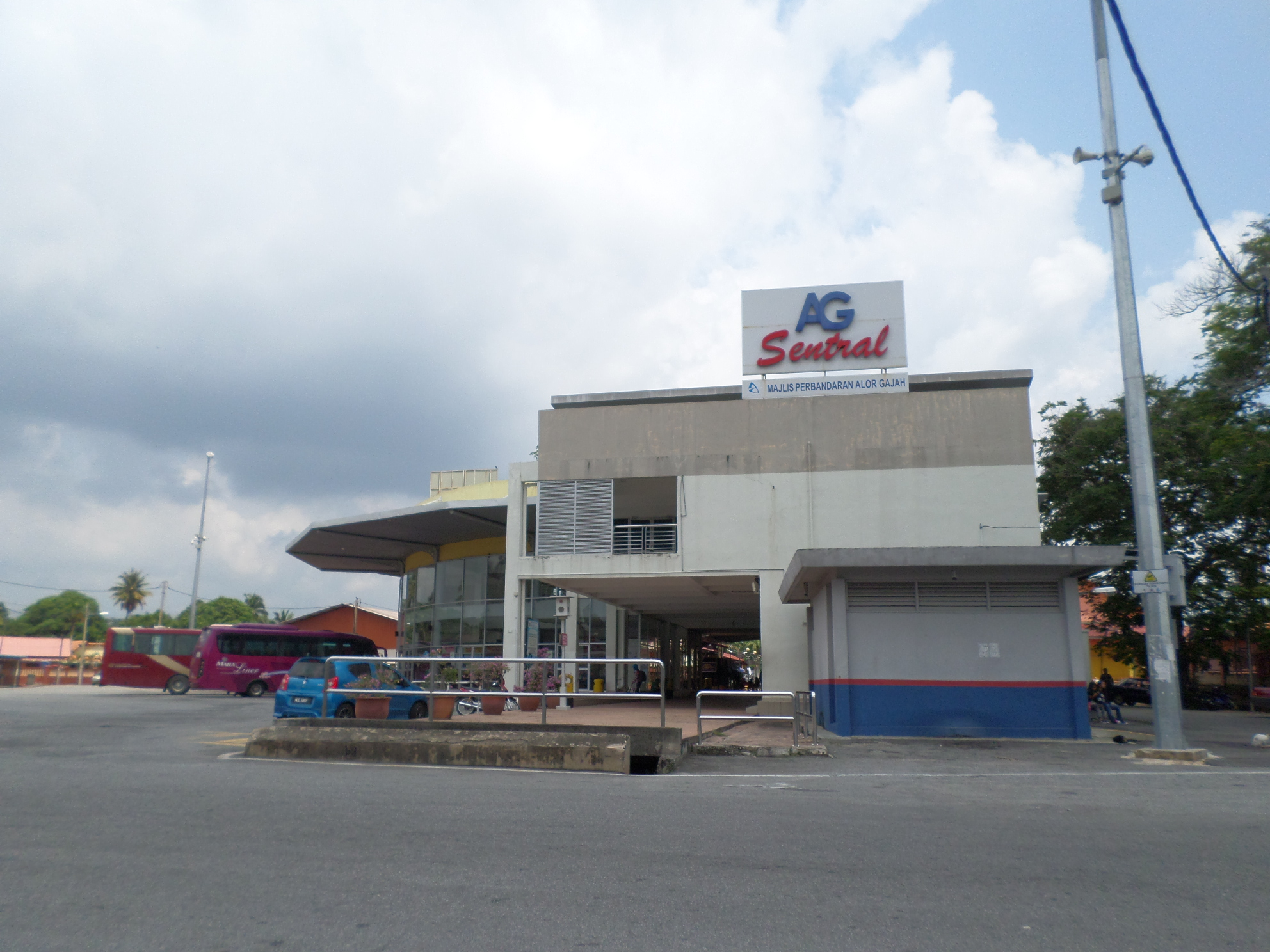 AG Sentral Bus Terminal, Alor Gajah, Melaka, Malaysia